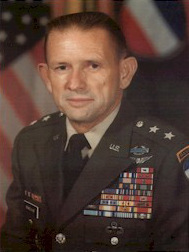 Major General John K. Singlaub from [1] official U.S. Army portrait and therefore ineligible for copyright Depicted person: John K. Singlaub – Recipient of the Purple Heart medal